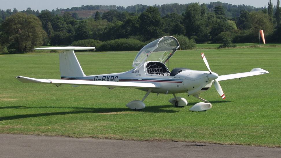 Diamond DA20 Katana at Redhill Aerodrome, Surrey, England